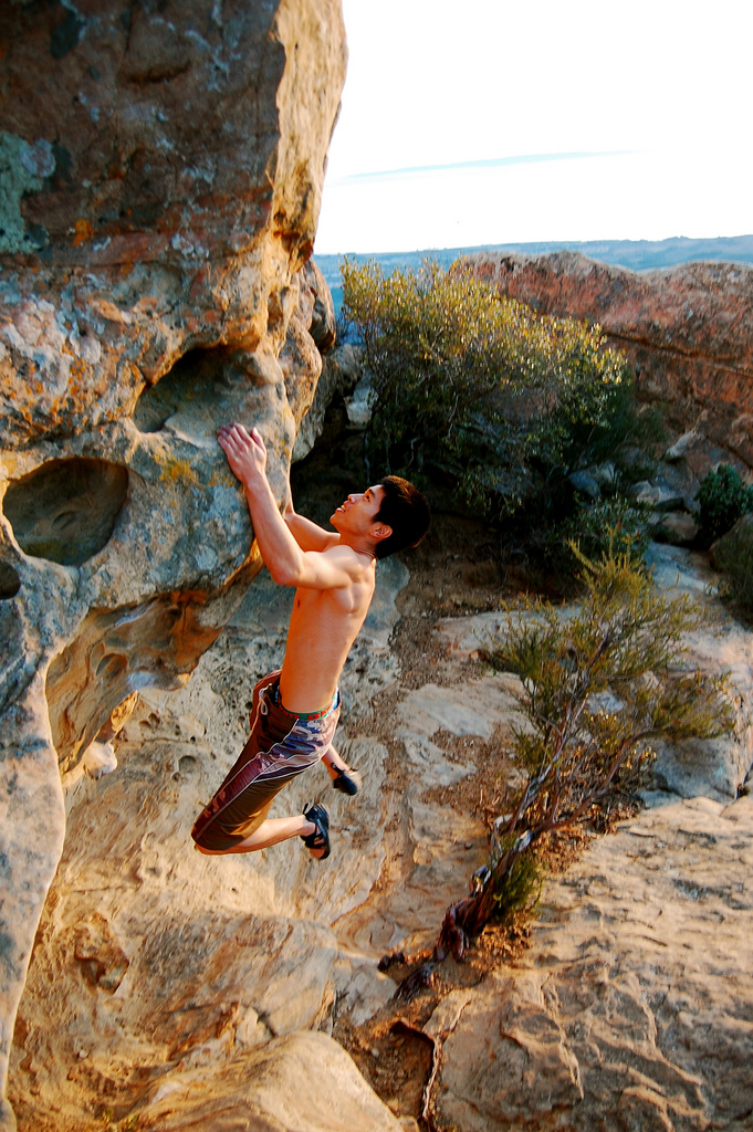 Bouldering in Santa Barbara, CA